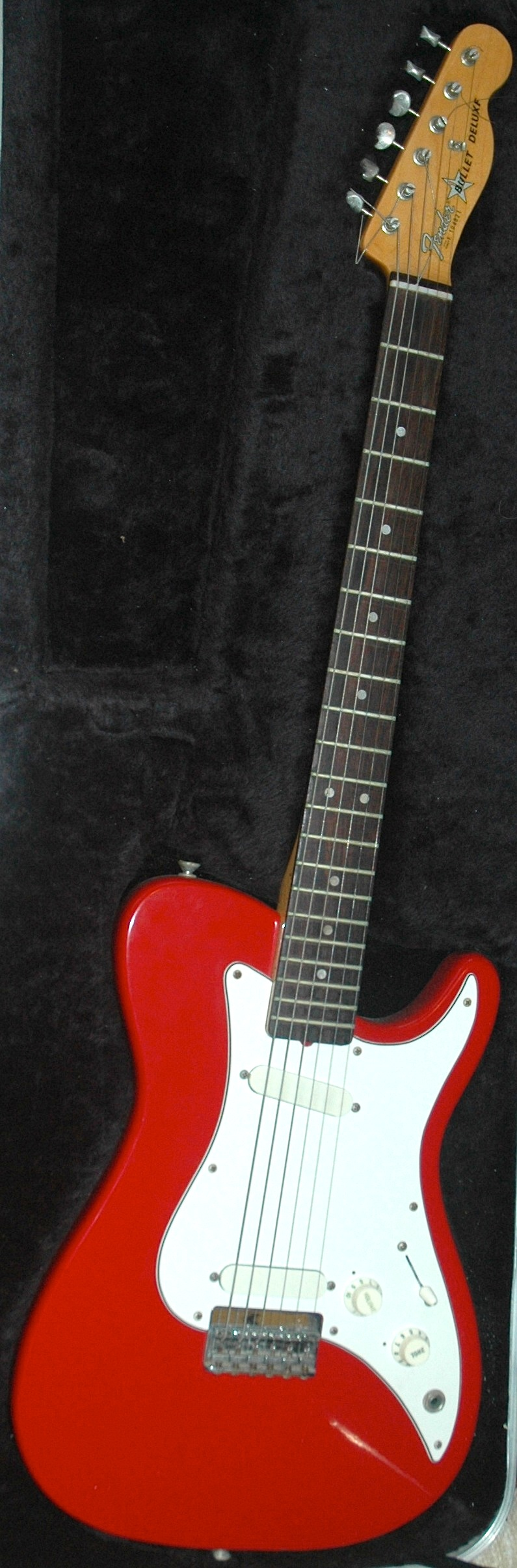 A 1981 Fender Bullet standard guitar, serial # E104xxx